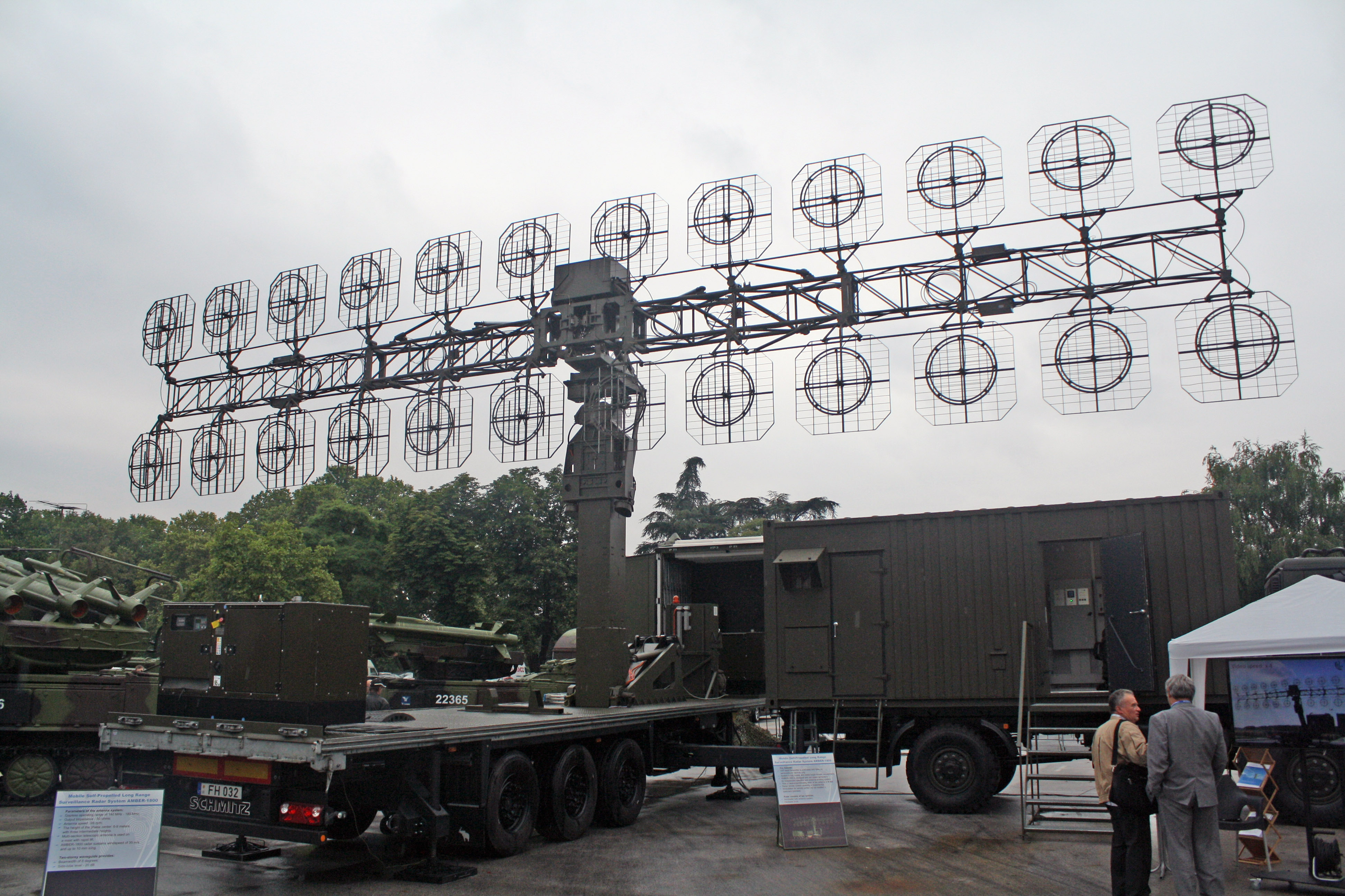 AMBER-1800 Lithuanian mobile self-propelled surveillance radar on display at "Partner 2015" military fair.